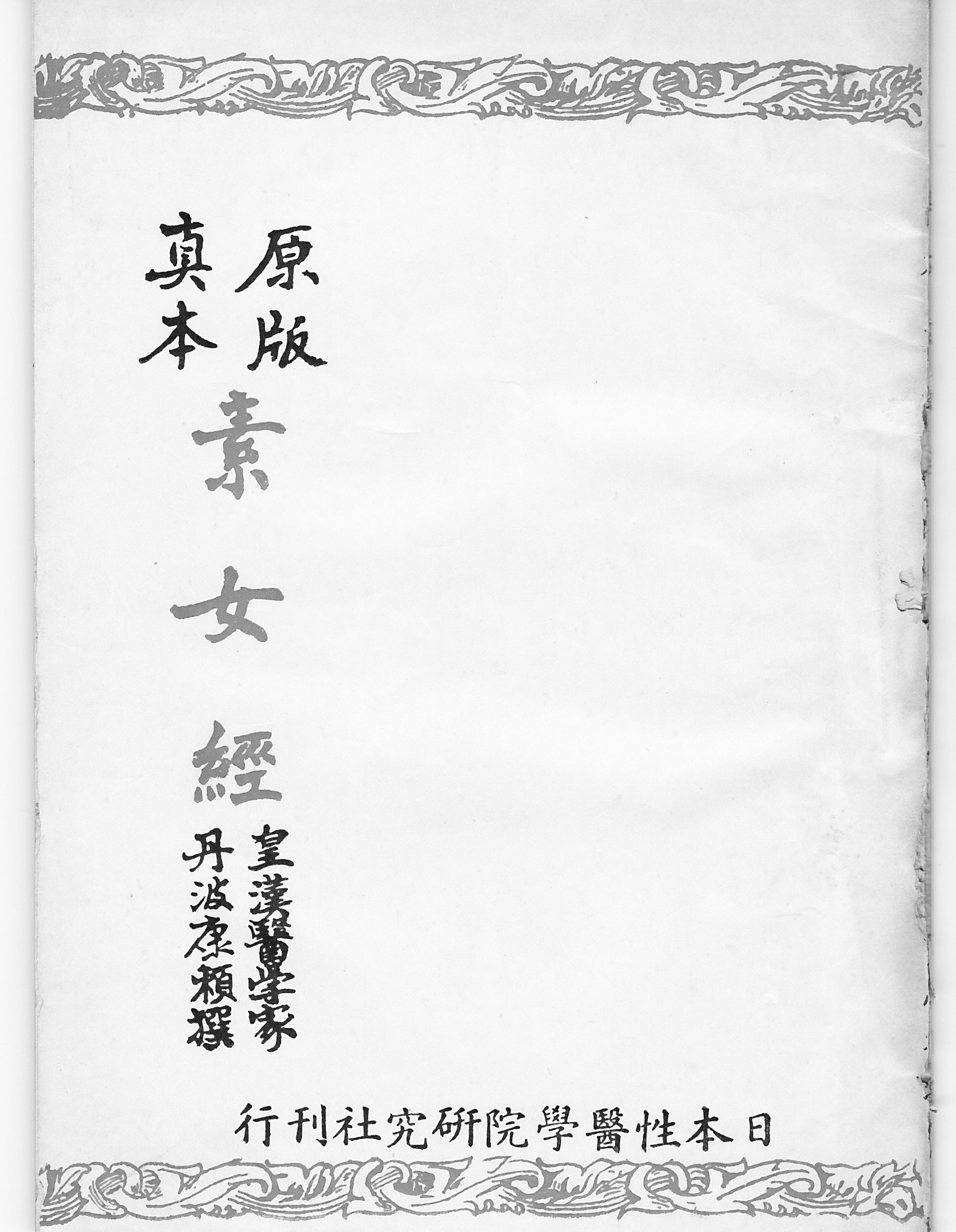 Virgin Girl Classic，published in Japan 1920, PD